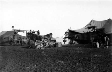 AEG C.IV aircraft, being assembled at the German aircraft depot at Jenin, North Palestine.